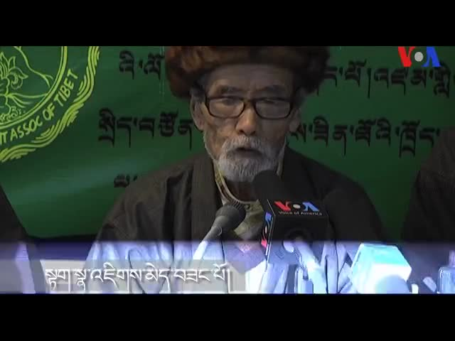 Tanak Jigme Sangpo.